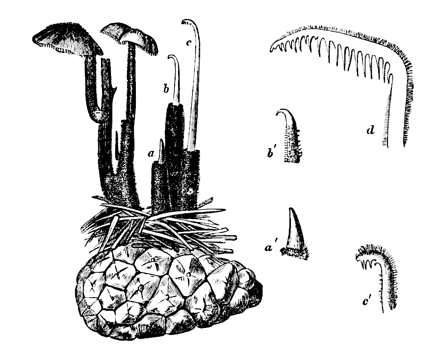 "Fig. 166-Hydnum auriscalpium, upon a pine cone, in different stages of development." Hydnum auriscalpium is now known as Auriscalpium vulgare Gray. Original scan cleanup up in Photoshop by uploader.